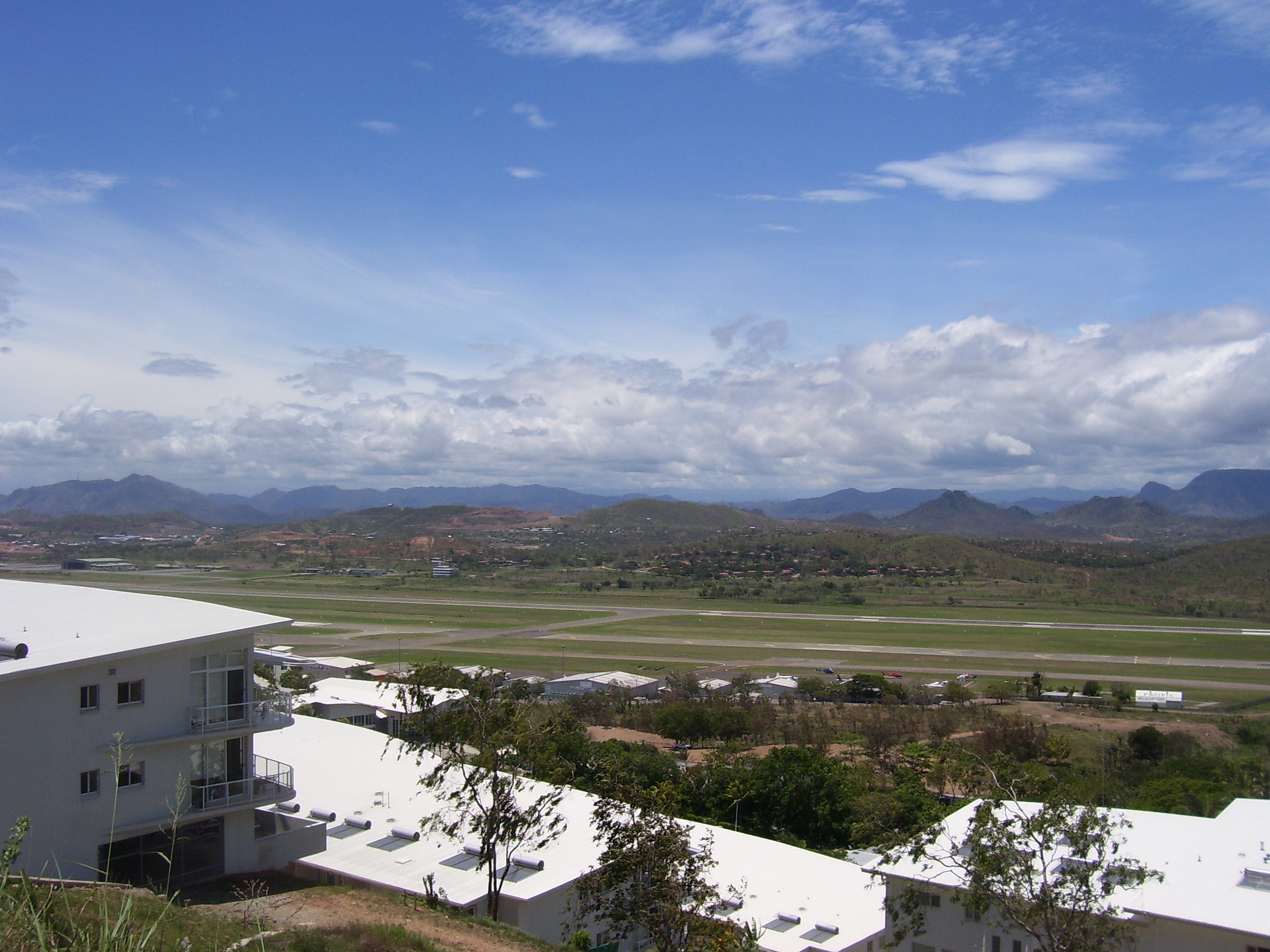 Port Moresby Airport looking west October 2013